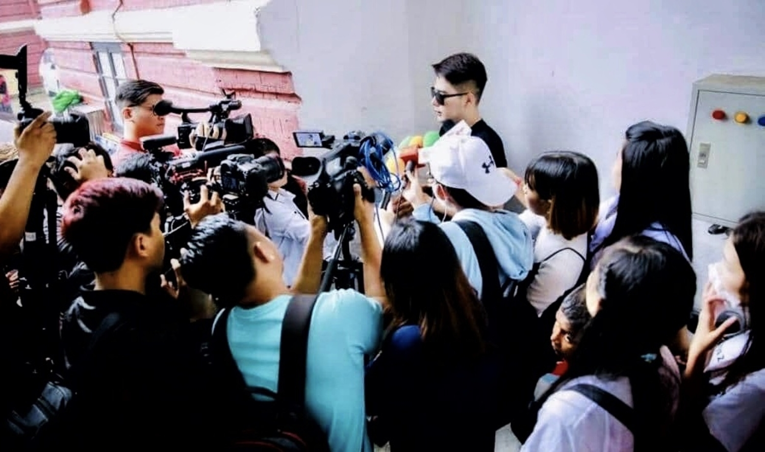 Zay Ye Htet is a famous actor from Myanmar.